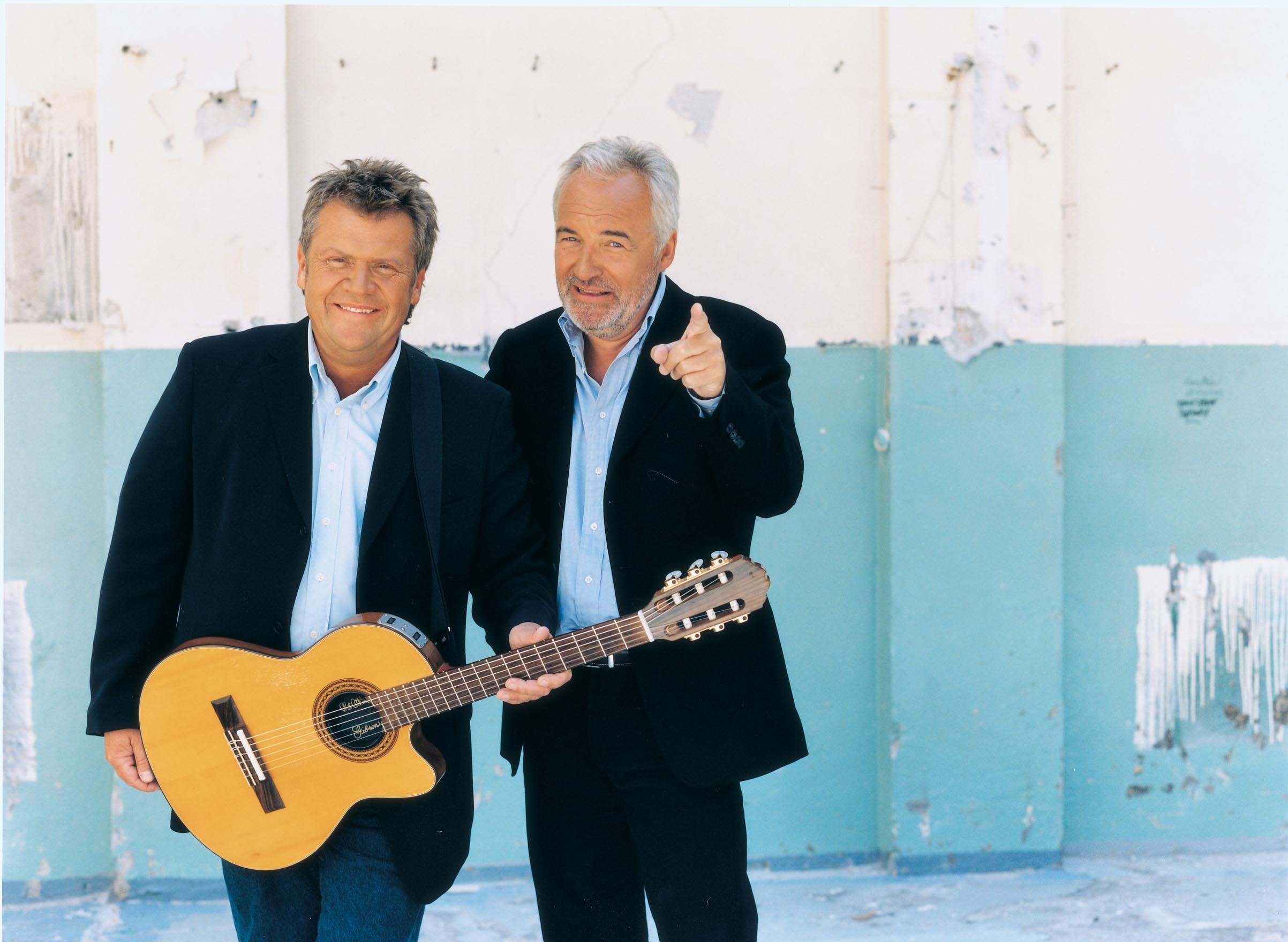 Danish recording artists Niels and Jørgen Olsen.